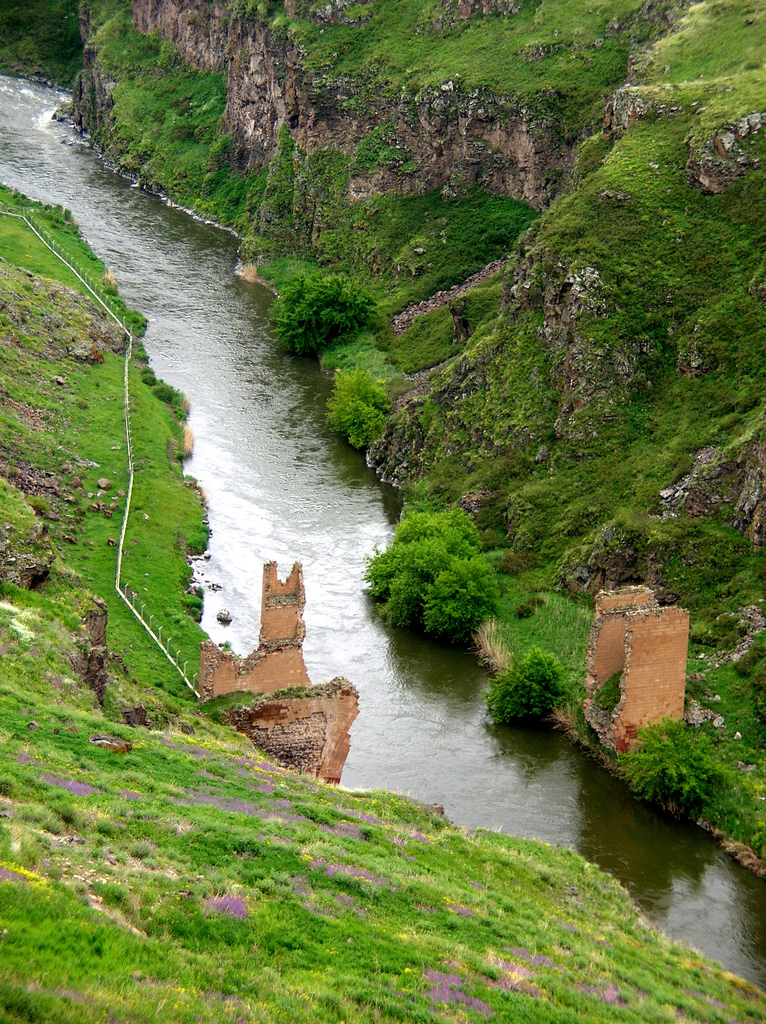 Bridge of Ani, eastern Turkey